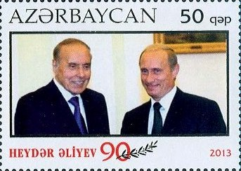 The 90th Ann. of National Leader Heydar Aliyev.